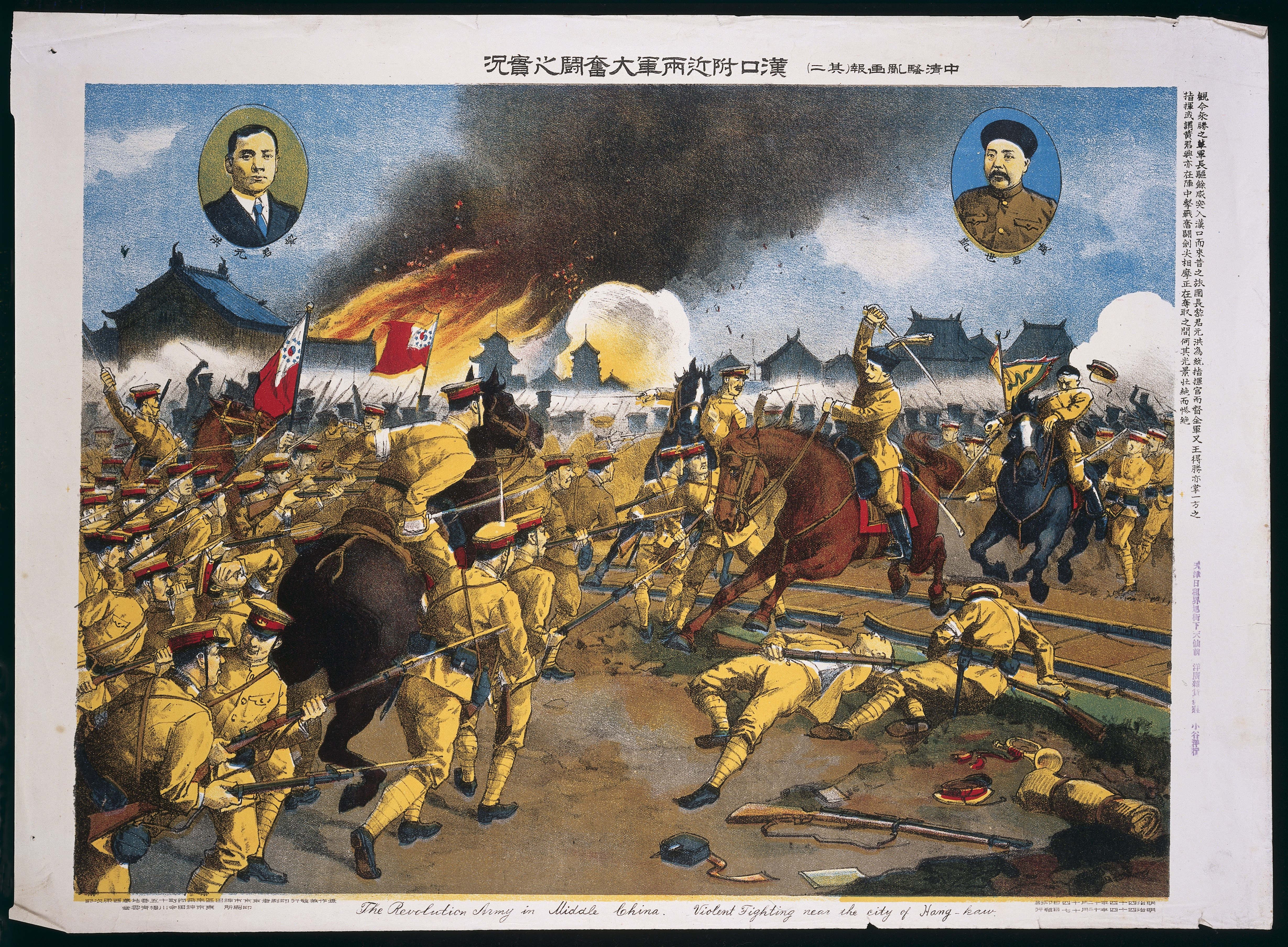 An episode in the revolutionary war in China, 1911: a battle outside Hankow. Iconographic Collections Keywords: Revolution; Chinese Revolution; Military History; Fighting; China; Battles; T. Miyano; Xinhai Revolution; Manchu (Qing) Dynasty